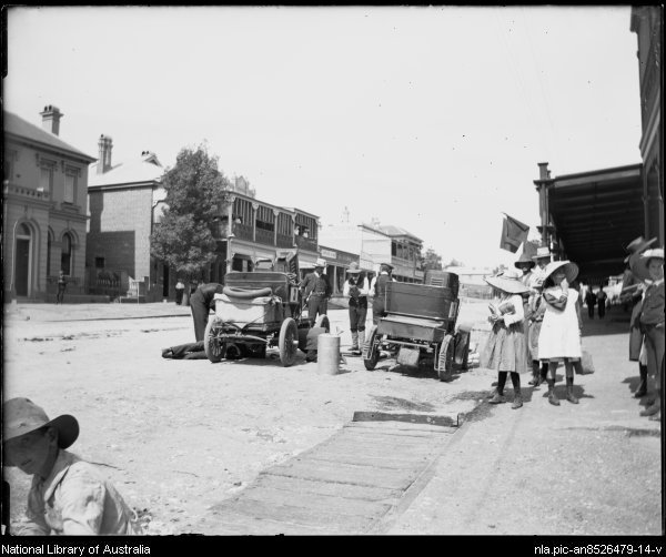 Gundagai Photographic Collection taken by Dr. C.L. Gabriel (1857-1927) from the Butcher and Bell Collections held in Pictures Collection, National Library of Australia, Canberra The owner of this work is the National Library of Australia which allows anyone to use it for any purpose on condition that attribution is made to the creator/artist, description is included and owning institution acknowledged. Redistribution, derivative work, commercial use and all other use is permitted on these conditions (